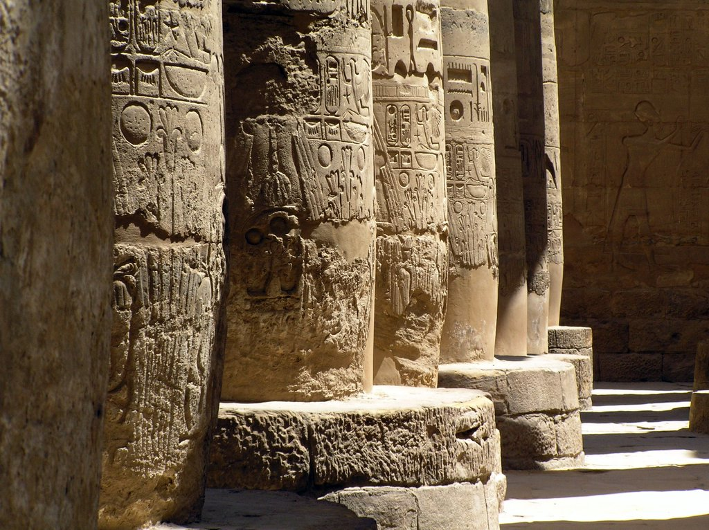 Author: F.Malotaux,The Netherlands License: Subject: Karnak Temple, Luxor, Egypt Date: May 4, 2006 Original resolution: 2288x1712)